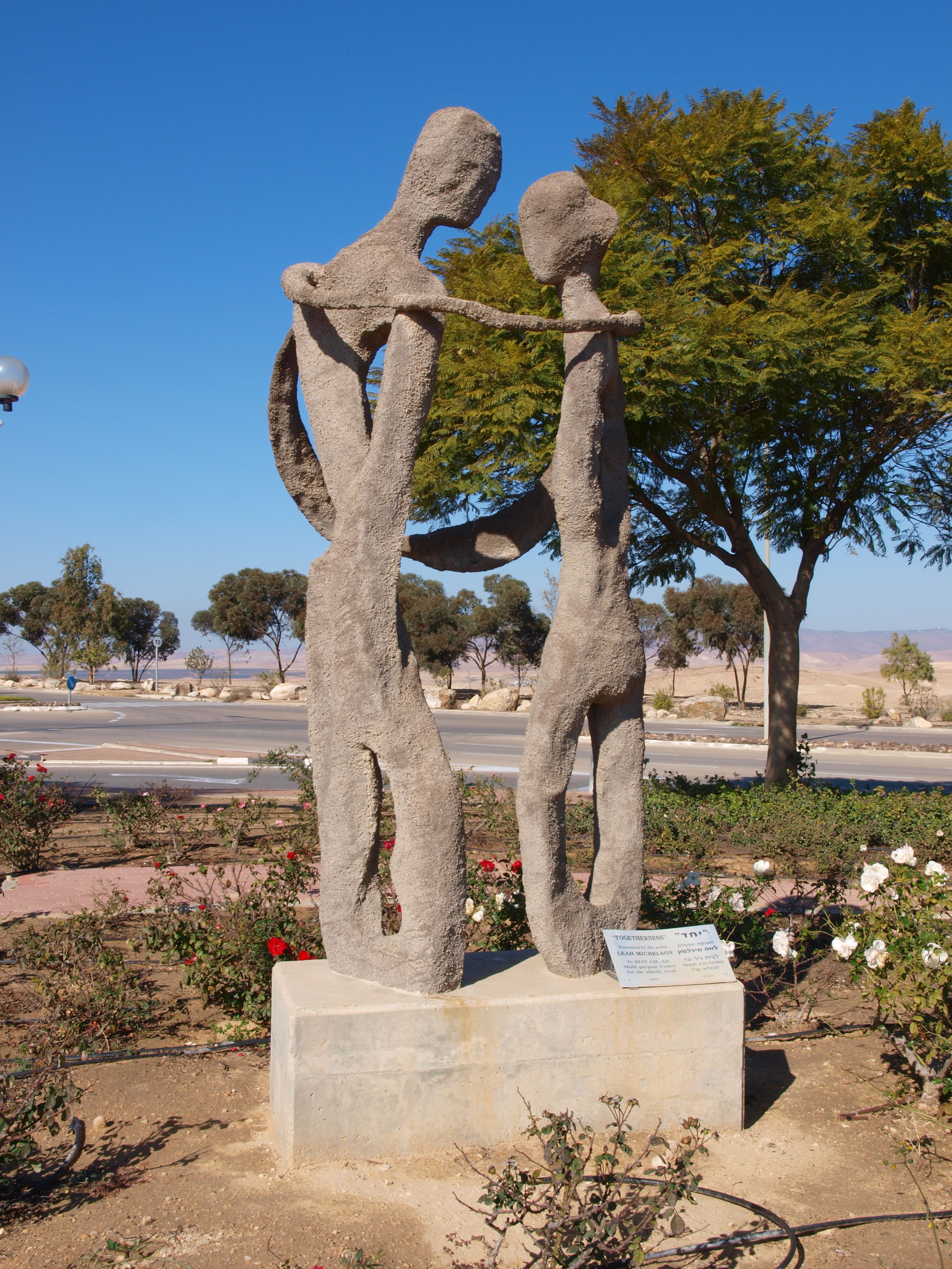 The sculpture "Together" by Leah Michlson, 1996. Complex network of fiber glass coated steel, height 300 cm, Gilead House , Arad.